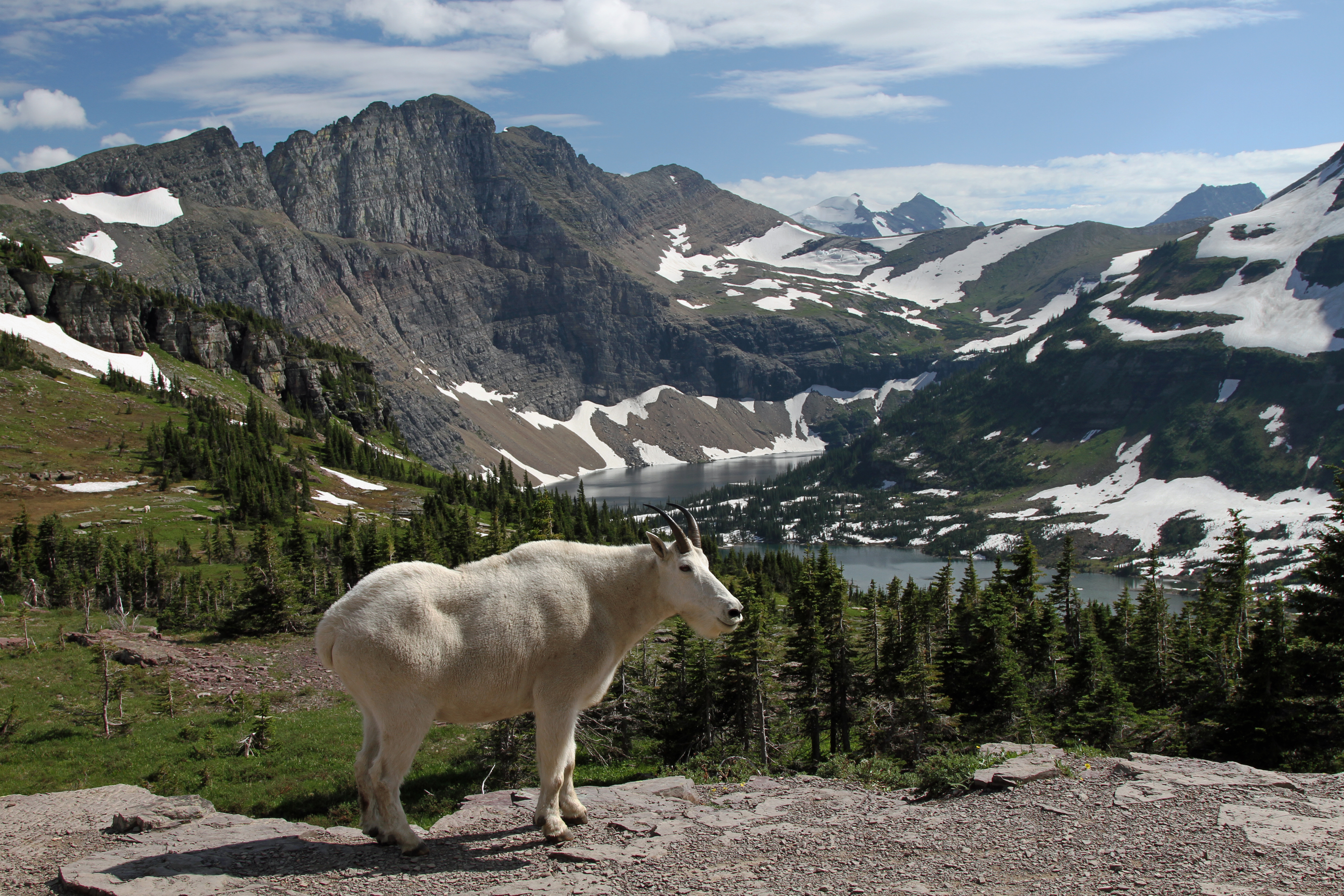 Mountain Goat at Hidden Lake near Logan Pass in Glacier National Park